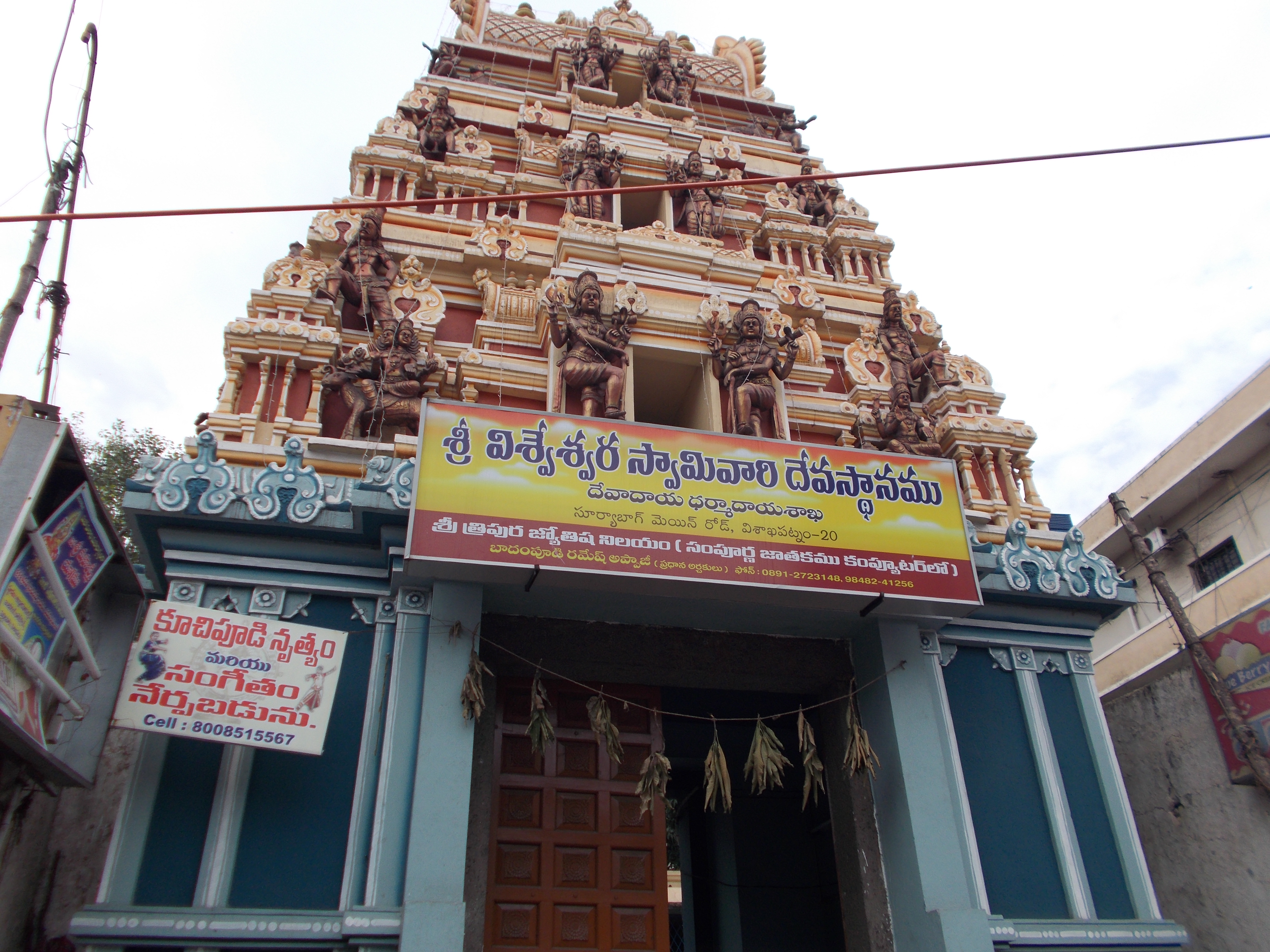 S-AP-456 .Visweswara Swamy varu temple from outside